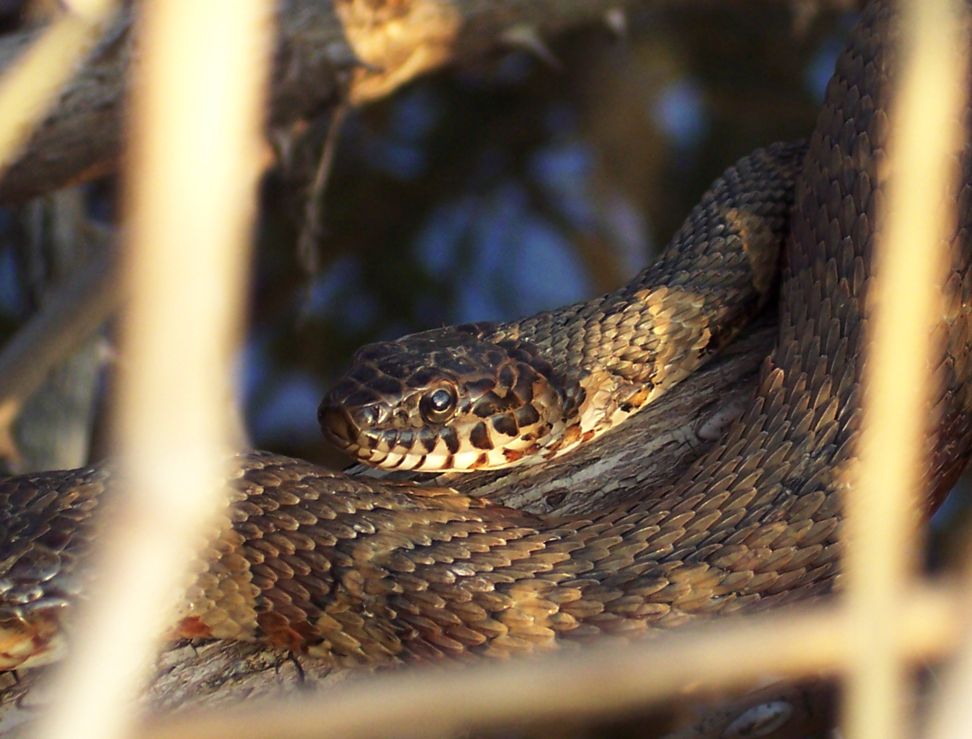 Northern Water Snakes basking in the evening sun.